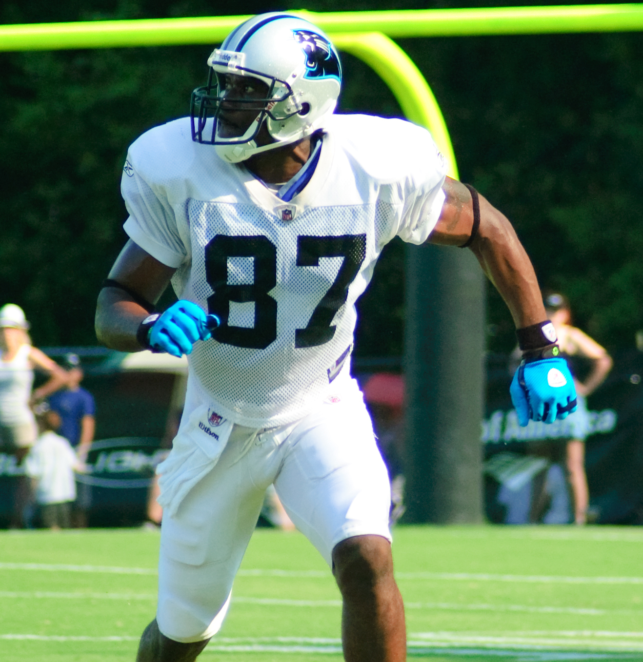 A morning at the Carolina Panther's Training Camp at Wofford College in Spartanburg, S.C. on 8/10/2009